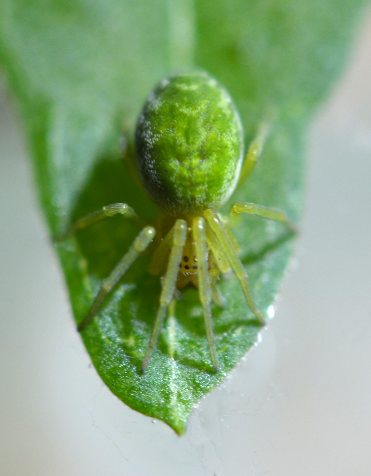 Nigma walckenaeri ; green cribellate spider (up to five millimetres long). It's the largest species in this family (Dictynidae), in Lambersart, (Nord-Pas-de-Calais, North of France, near Lille - 2014-09-27).